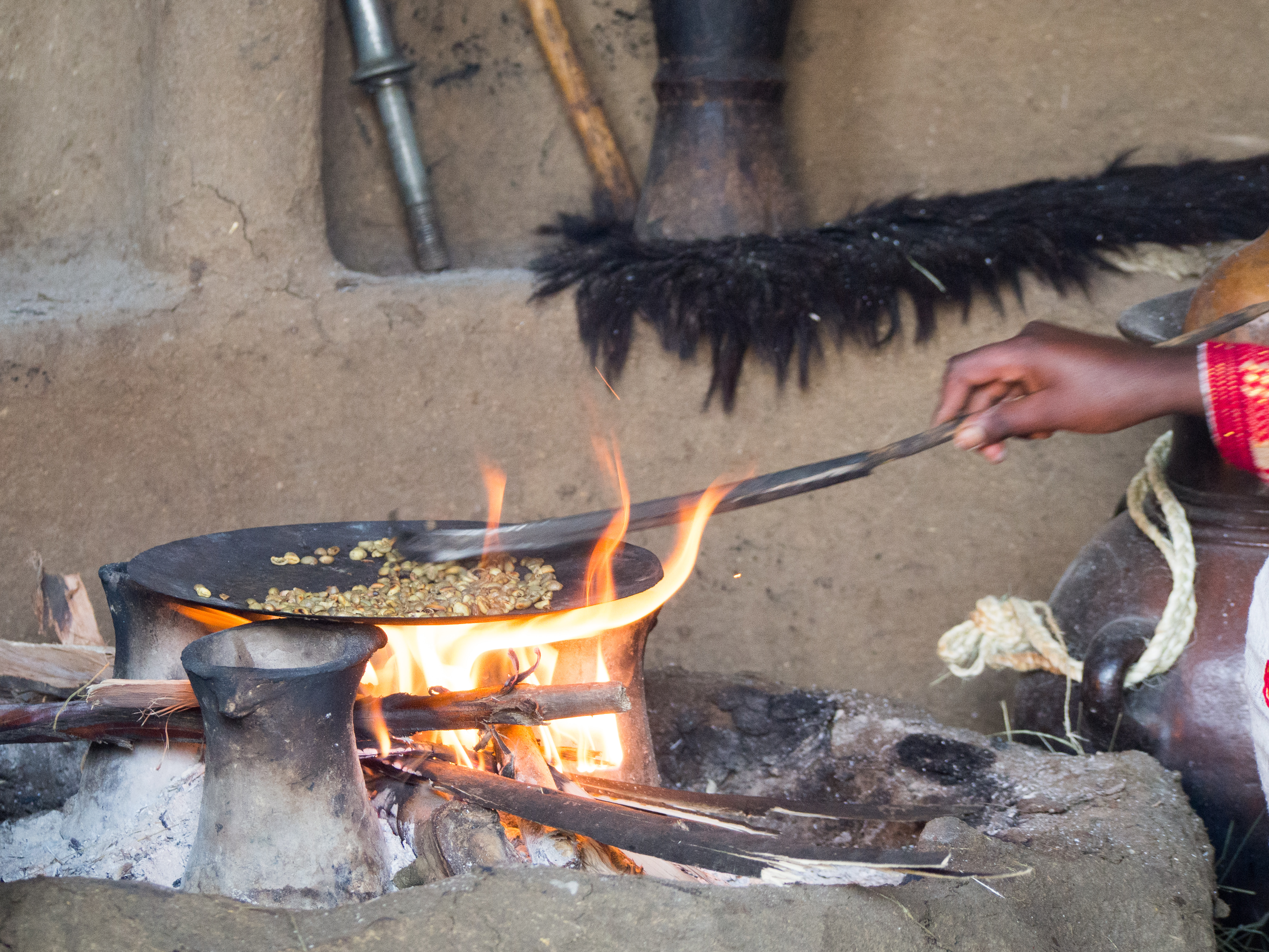 Roasting coffee beans during Ethiopian coffee ceremony in Ankober, Ethiopia.